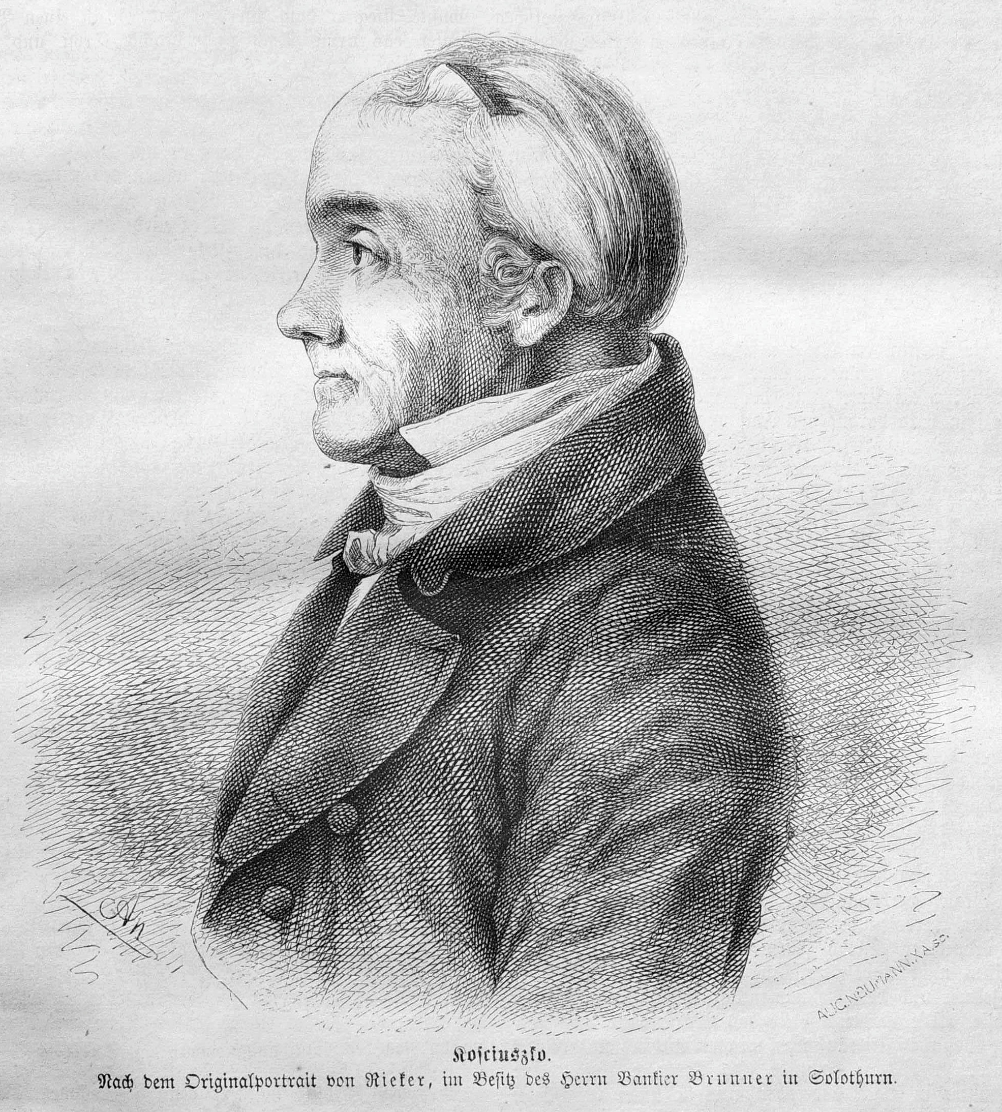 caption: "Kosciuszko.Nach dem Originalportrait von Rieker, im Besitz des Herrn Bankier Brunner in Solothurn."